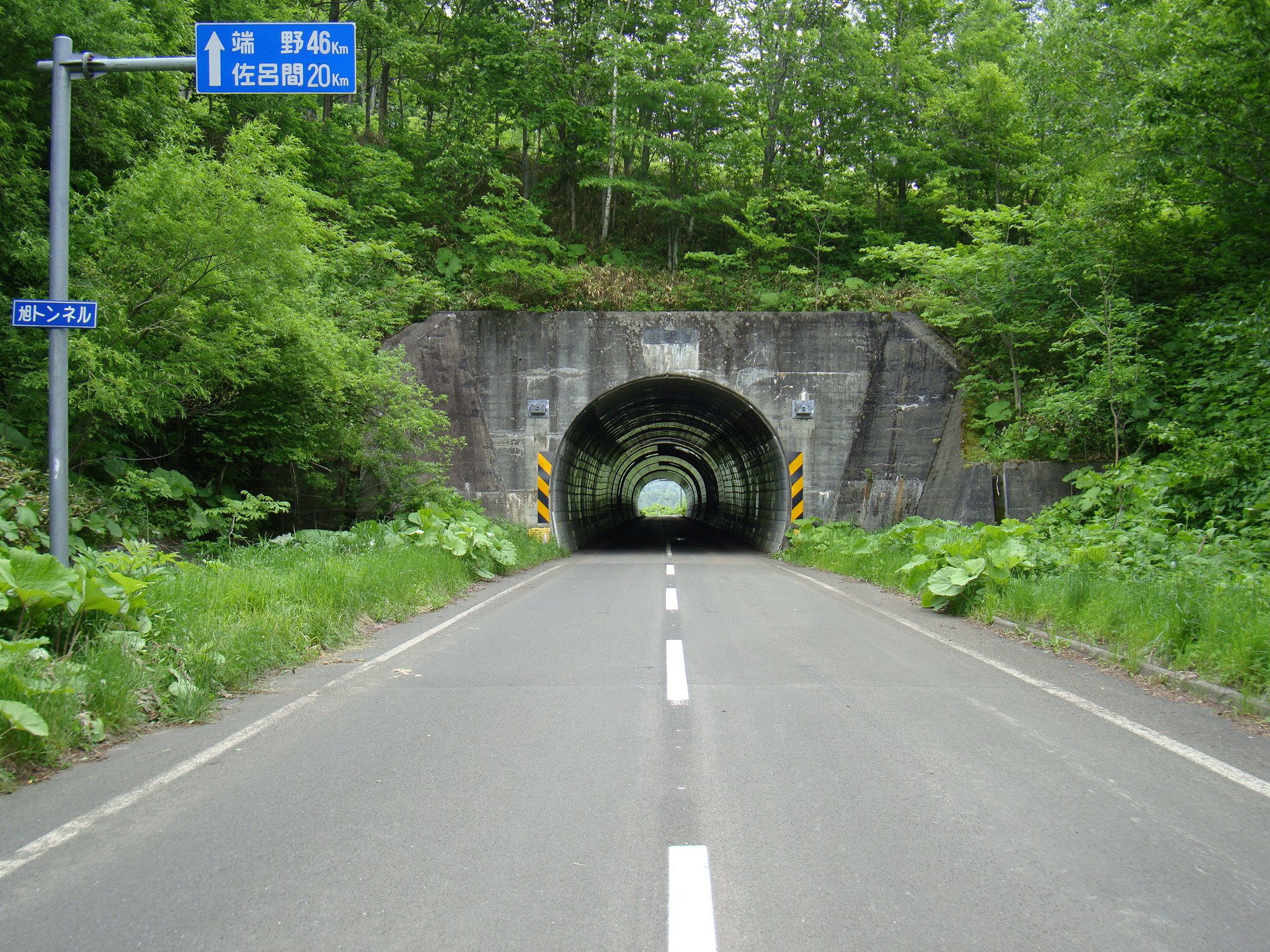 Asahi Mountain pass, Asahi Tunnel